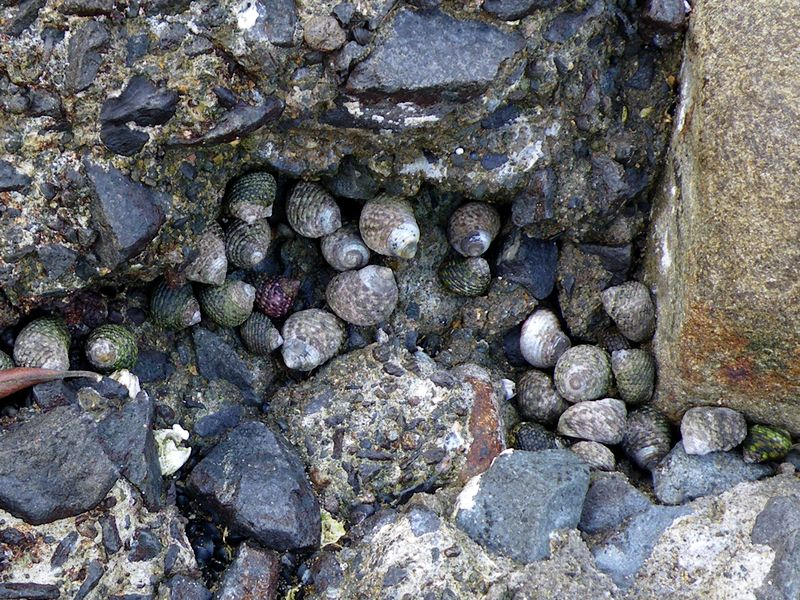 Monodonta confusa Tapparone-Canefri, 1874,at Goshonoura,Kumamoto